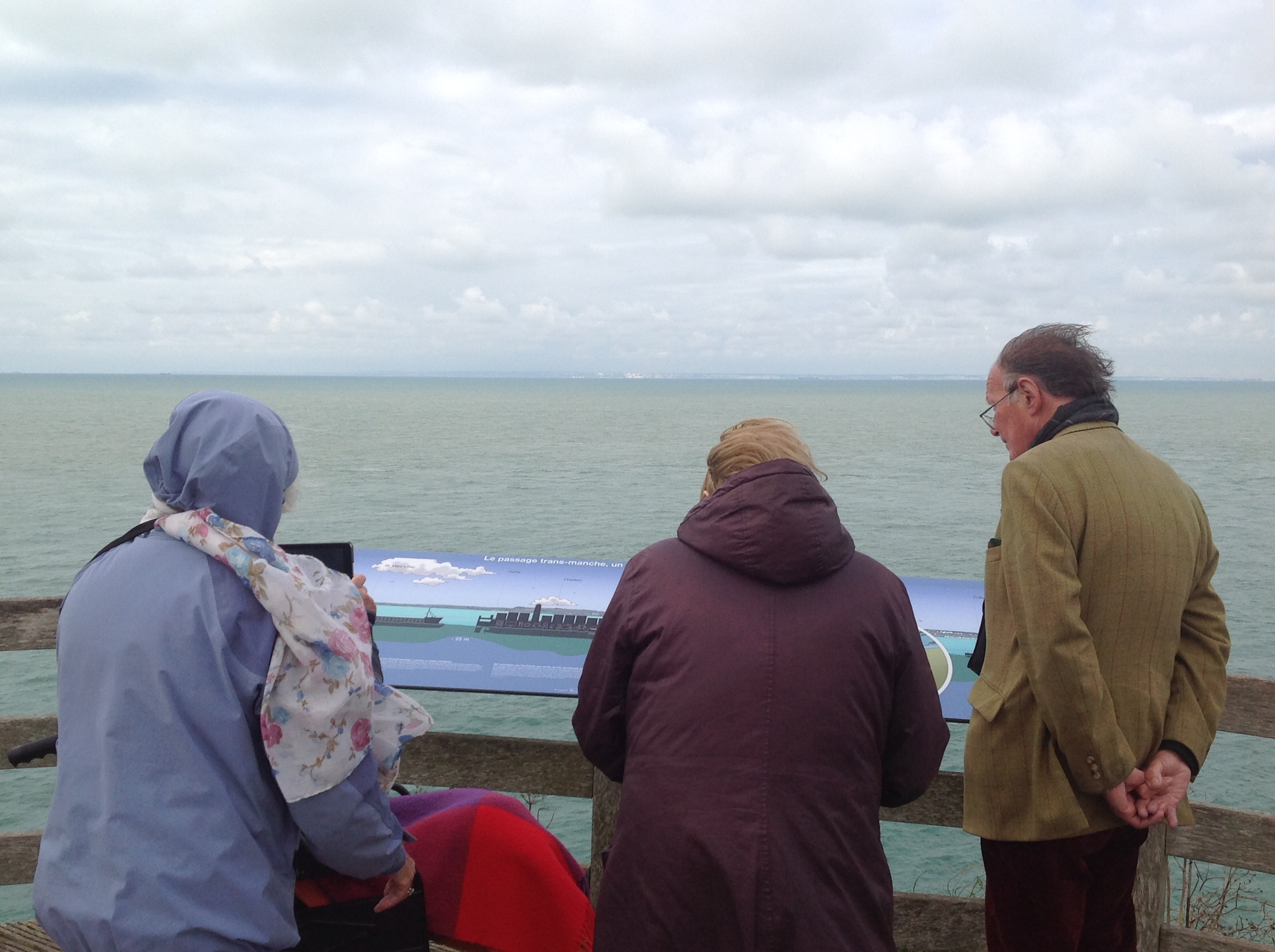 The White Cliffs of Dover viewed from the observation platform at Cap Gris-Nez, Pas-De-Calais, France.